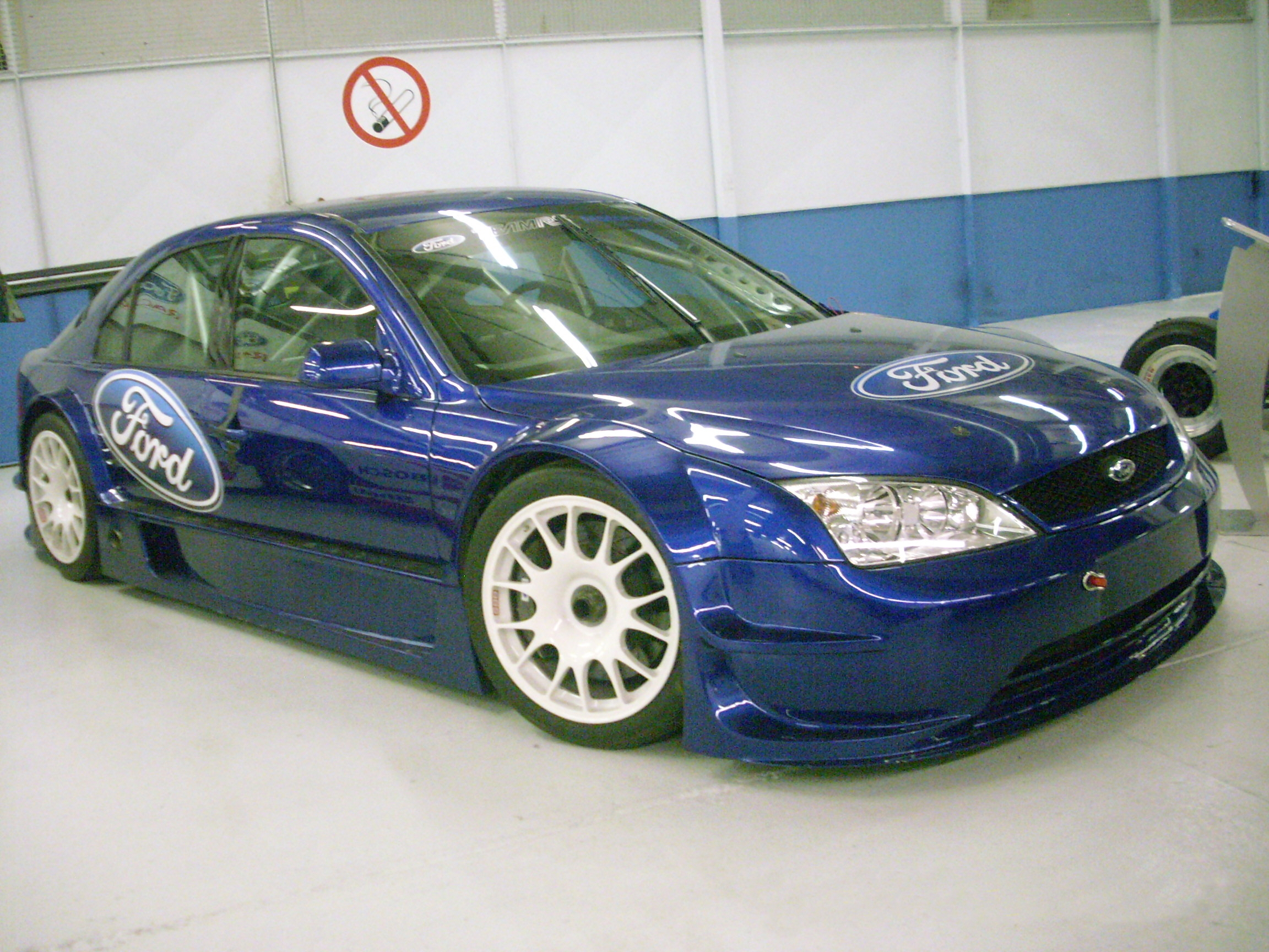 Ford Mondeo DTM concept car, side view, seen at Ford Family Day at Ford Niehl plant